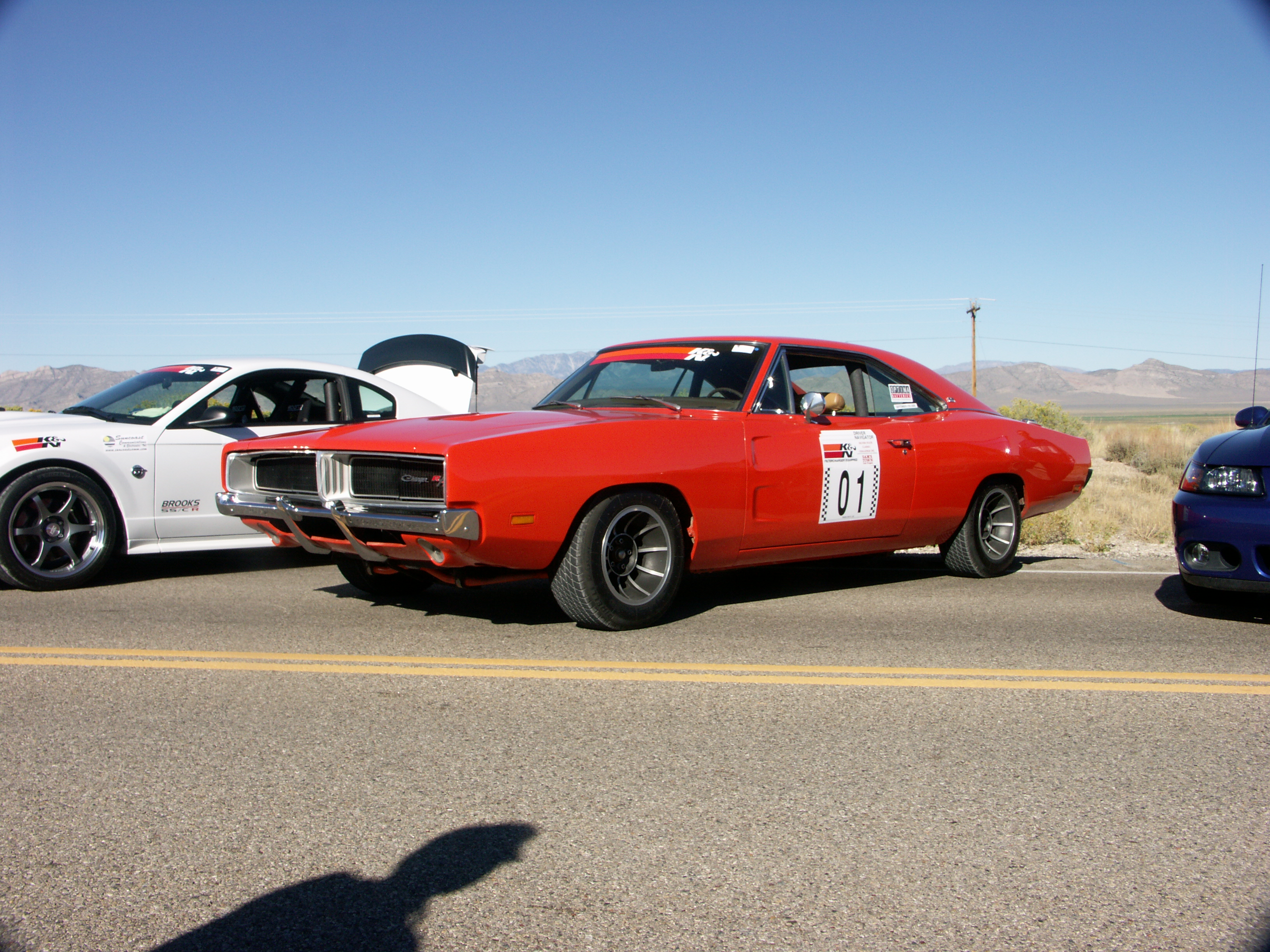 John Schneider's General Lee taken by me, User:Simon Gibbons, at the September 2006 run of the Silver State Classic Challenge